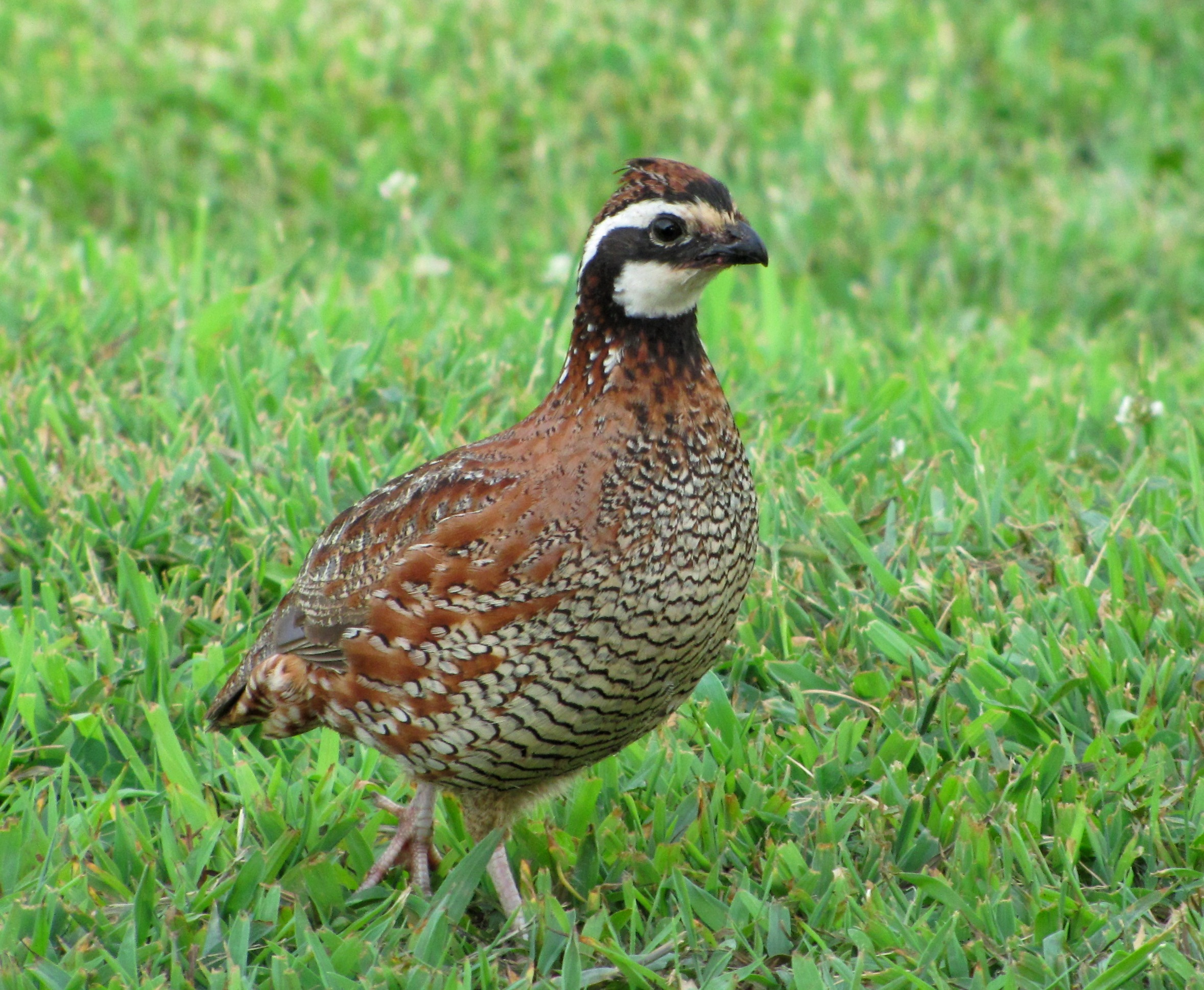 Northern bob white quail (Colinus virginianus), photographed in Greenback, Tennessee, USA.